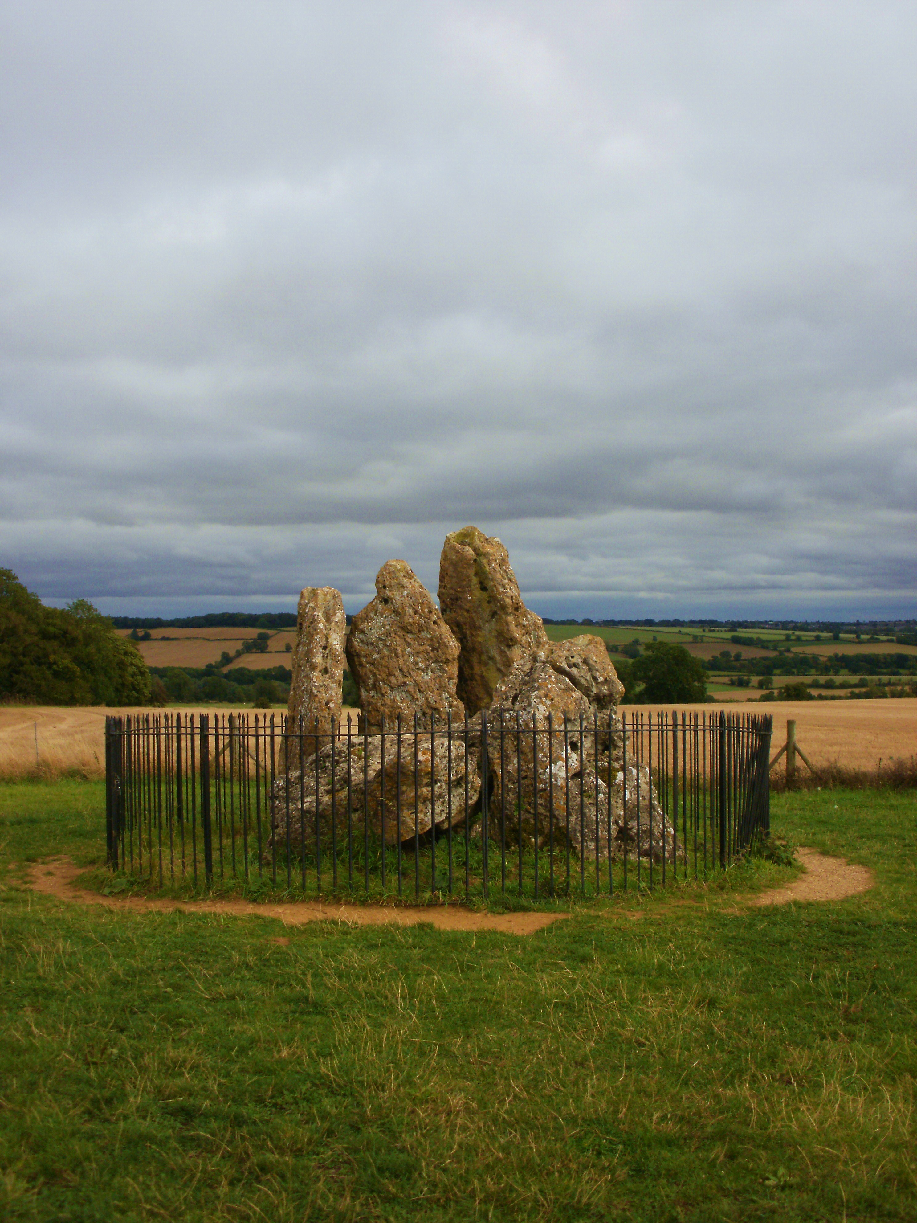 The Whispering Knights, a Neolithic portal dolmen that is a part of the Rollright Stones in the Cotswolds, England.